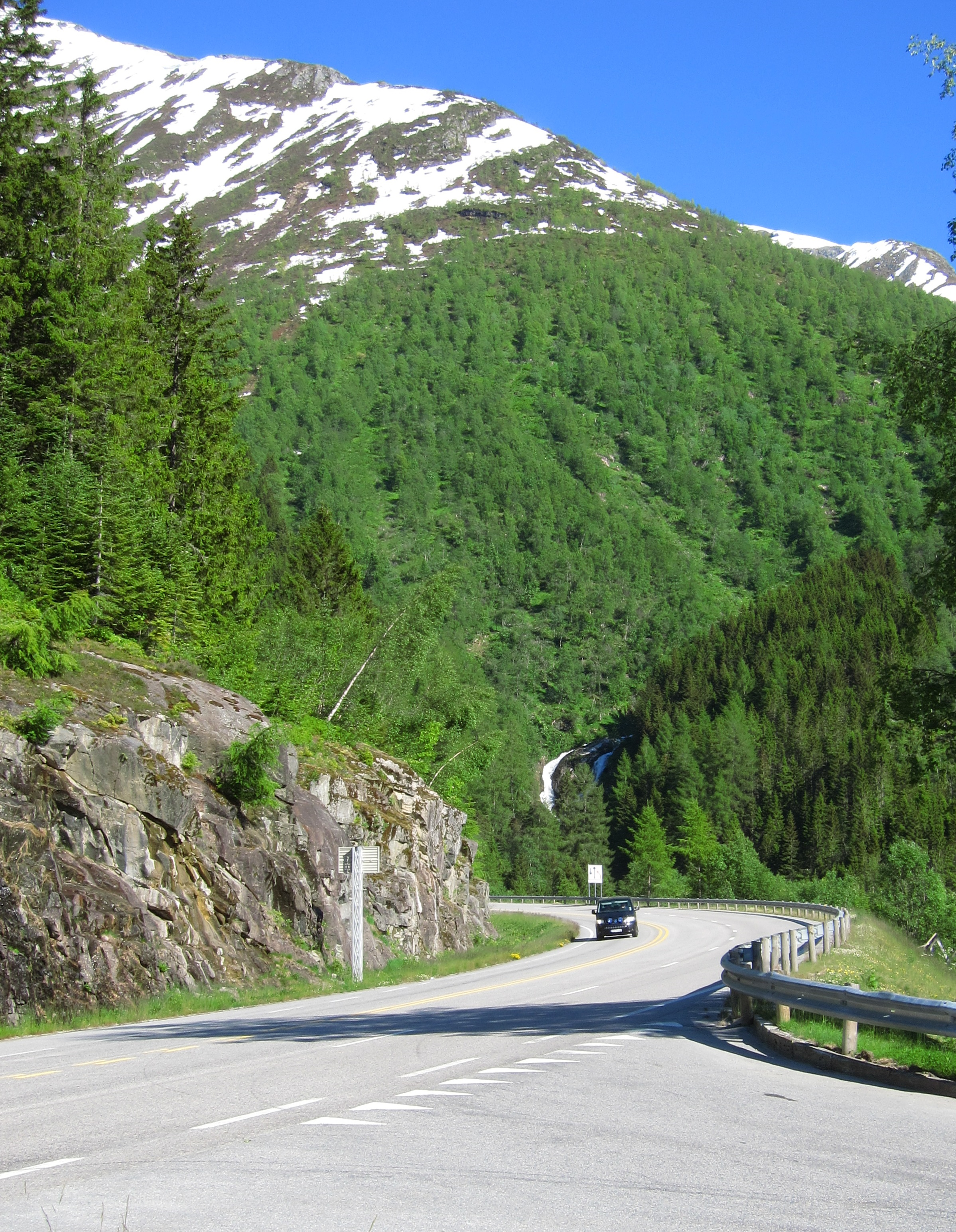 National route number 5 at Fjærlandsfjord, Berge viewpoint, 192 meters above sea level.